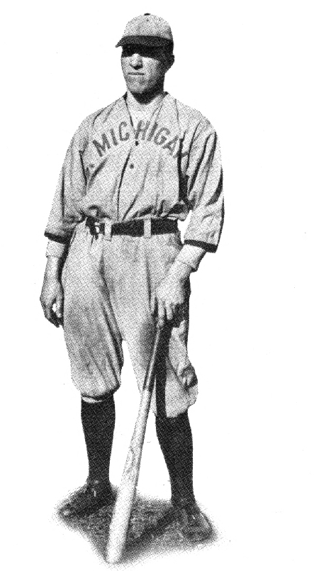 Photograph of Arthur Karpus